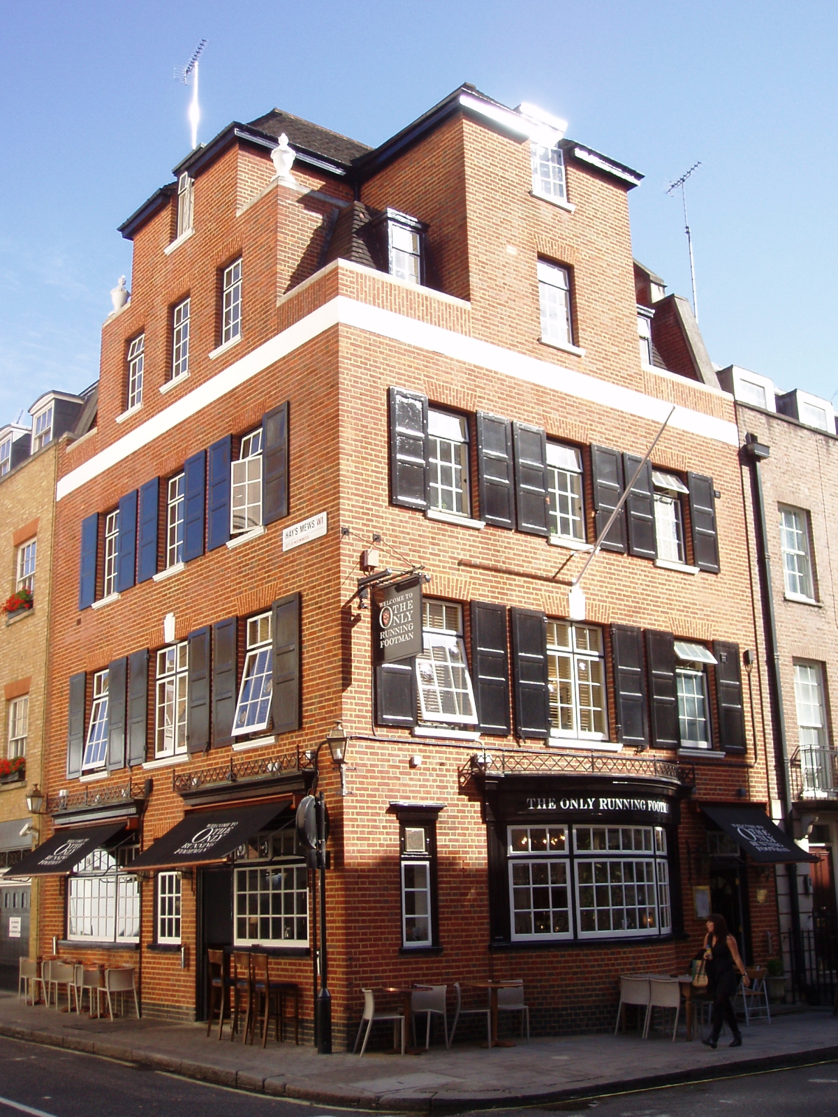 A pub in Mayfair which seems to have dropped the first-person from its strikingly odd name. Can get a bit rammed of an evening. Address: 5 Charles Street. Former Name(s): I Am the Only Running Footman; The Running Footman. Owner: Meredith Group (website); Punch Taverns [Spirit Group] (former). Links: Randomness Guide to London Fancyapint Pubs Galore Beer in the Evening Qype Dead Pubs (history) --- The Independent [Terry Durack] Metro [Marina O'Loughlin] --- Andy Hayler Dos Hermanos [Simon Majumdar]